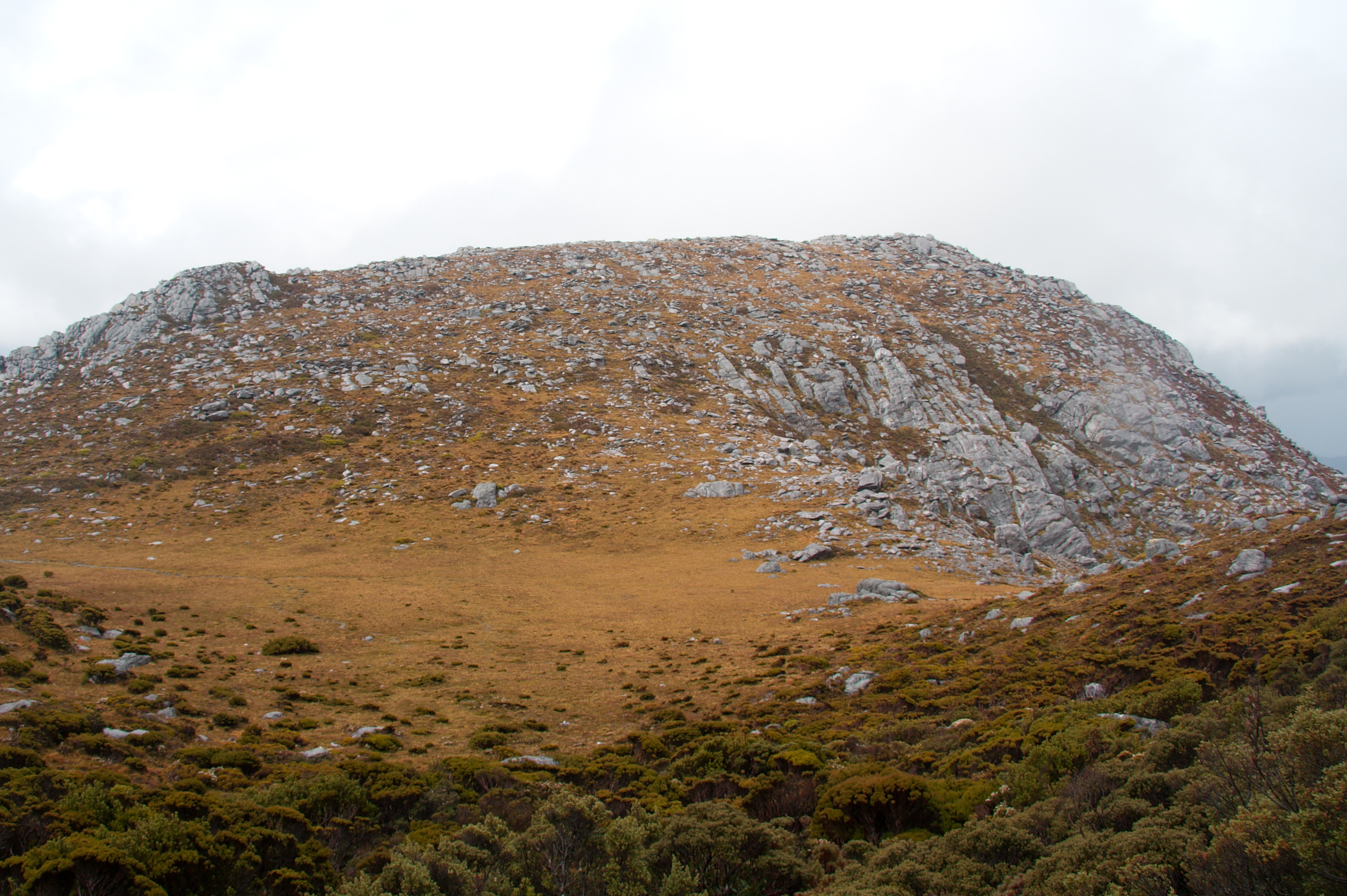 The Cupola, one of the peaks on the Frankland Range, with campsite in the foreground, during Summer 2008/2009